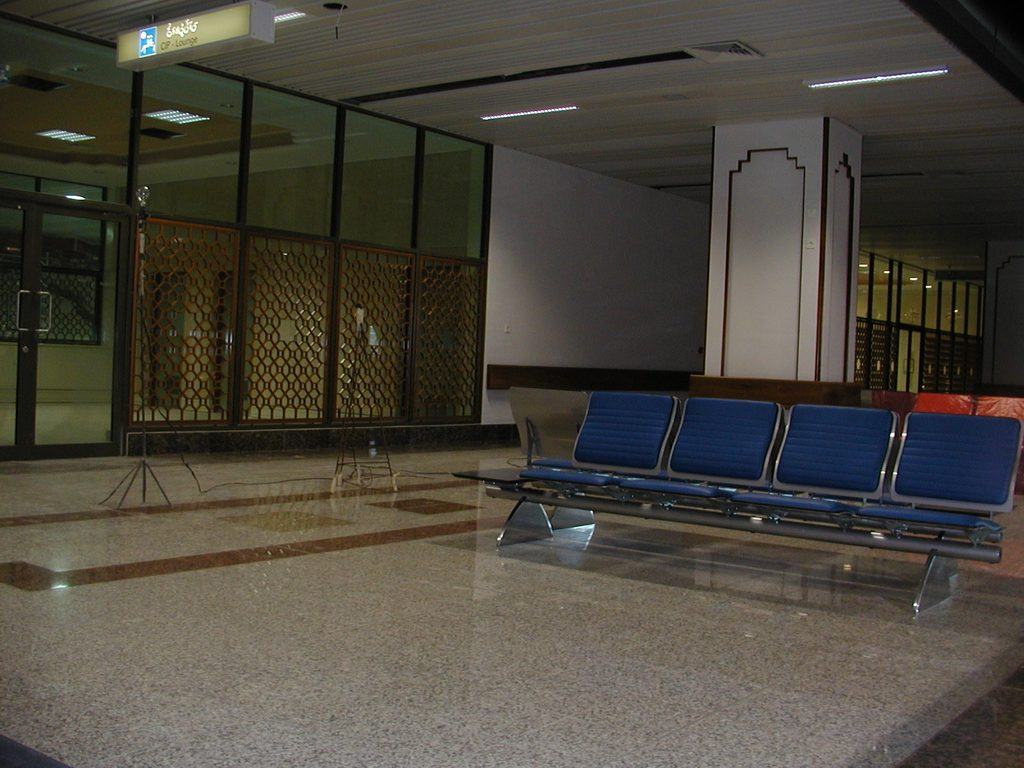 The CIP Lounge (under construction) at Allama Iqbal International Airport, Lahore, under construction in January, 2003. Photo by Waqas Usman. More images at and